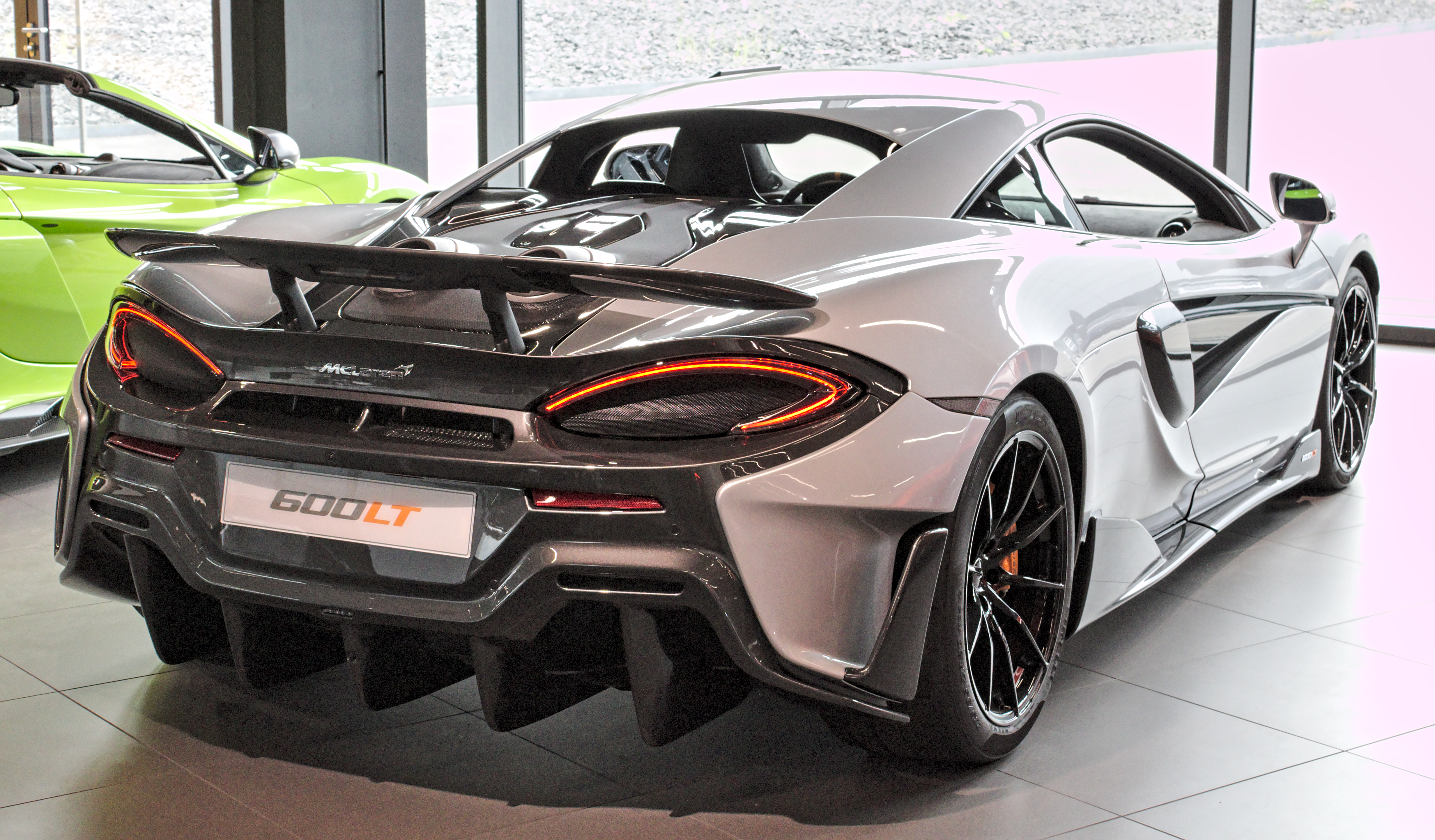 McLaren_600LT in Böblingen